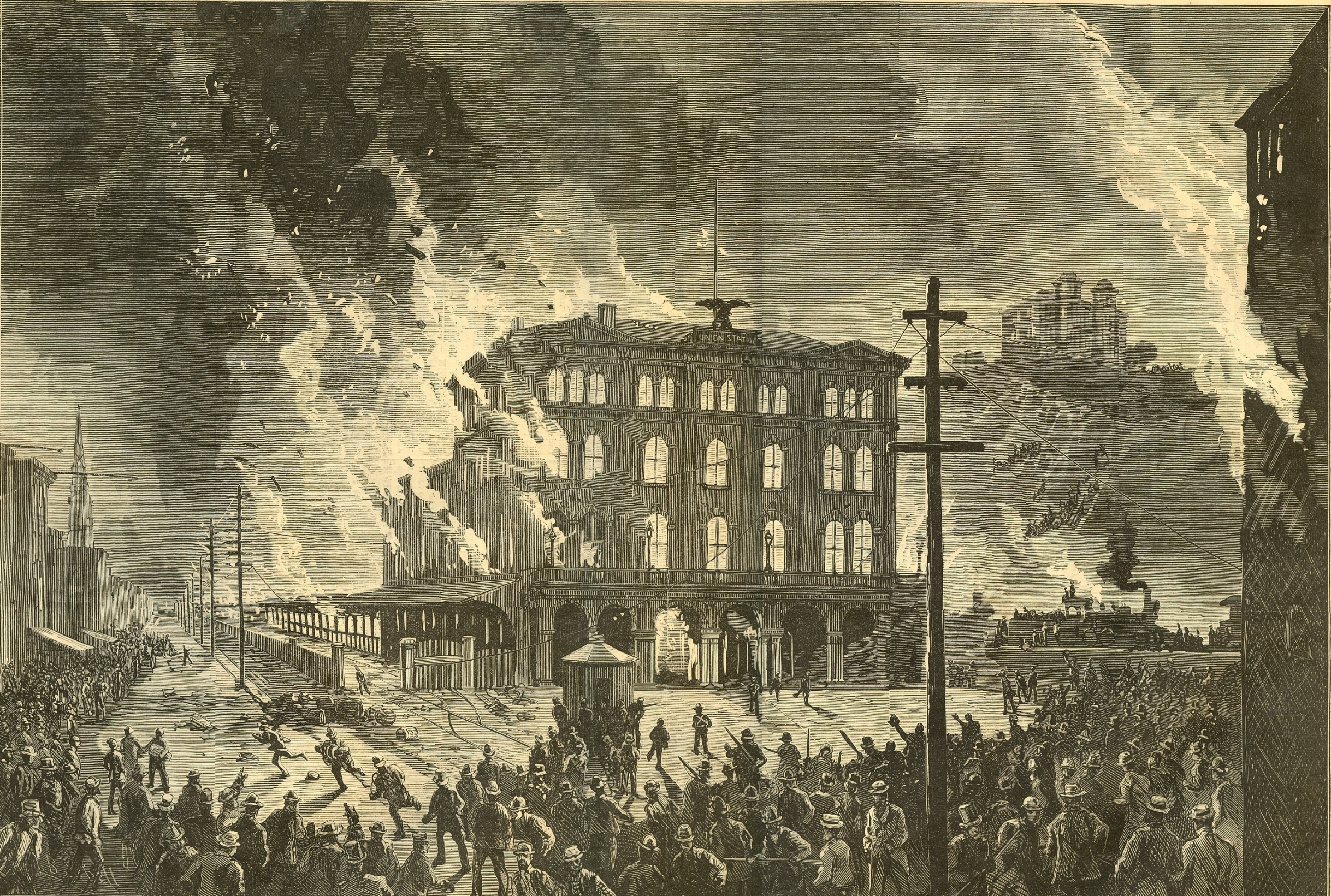 "Destruction of the Union Depot," Shows burning of Union Depot, Pittsburgh, PA during Great railroad strike of 1877.